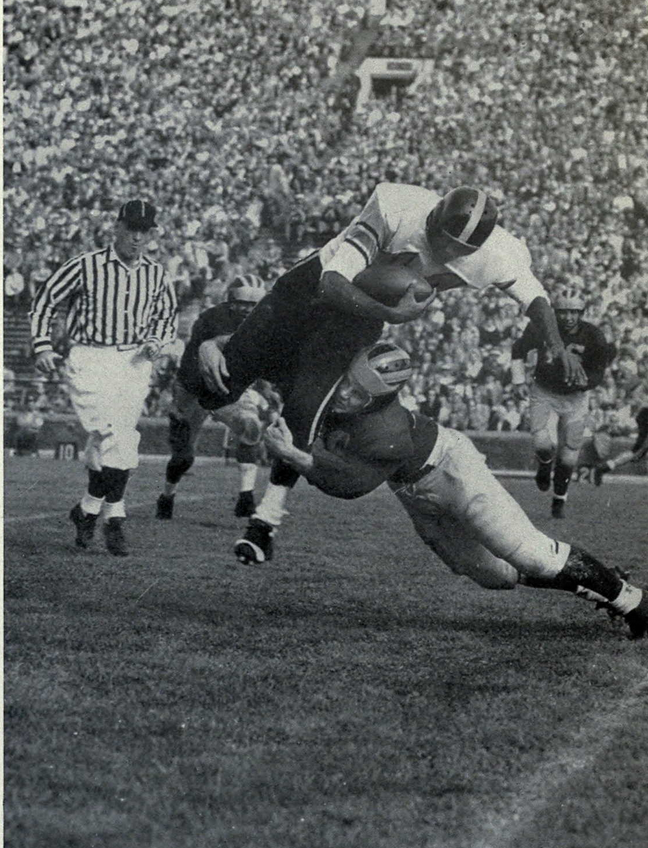 Photograph of Jim Maddock of the 1954 Michigan Wolverines football team tackling halfback Earl Smith of the Iowa Hawkeyes football team in 1954 This work is in the public domain because it was published in the United States between 1923 and 1963 and although there may or may not have been a copyright notice, the copyright was not renewed. Unless its author has been dead for the required period, it is copyrighted in the countries or areas that do not apply the rule of the shorter term for US works, such as Canada (50 pma), Mainland China (50 pma, not Hong Kong or Macao), Germany (70 pma), Mexico (100 pma), Switzerland (70 pma), and other countries with individual treaties. See Commons:Hirtle chart for further explanation. This work is in the public domain in the United States because it was published in the United States between 1923 and 1977 without a copyright notice. See Commons:Hirtle chart for further explanation. Note that it may still be copyrighted in jurisdictions that do not apply the rule of the shorter term for US works (depending on the date of the author's death), such as Canada (50 p.m.a.), Mainland China (50 p.m.a., not Hong Kong or Macao), Germany (70 p.m.a.), Mexico (100 p.m.a.), Switzerland (70 p.m.a.), and other countries with individual treaties.